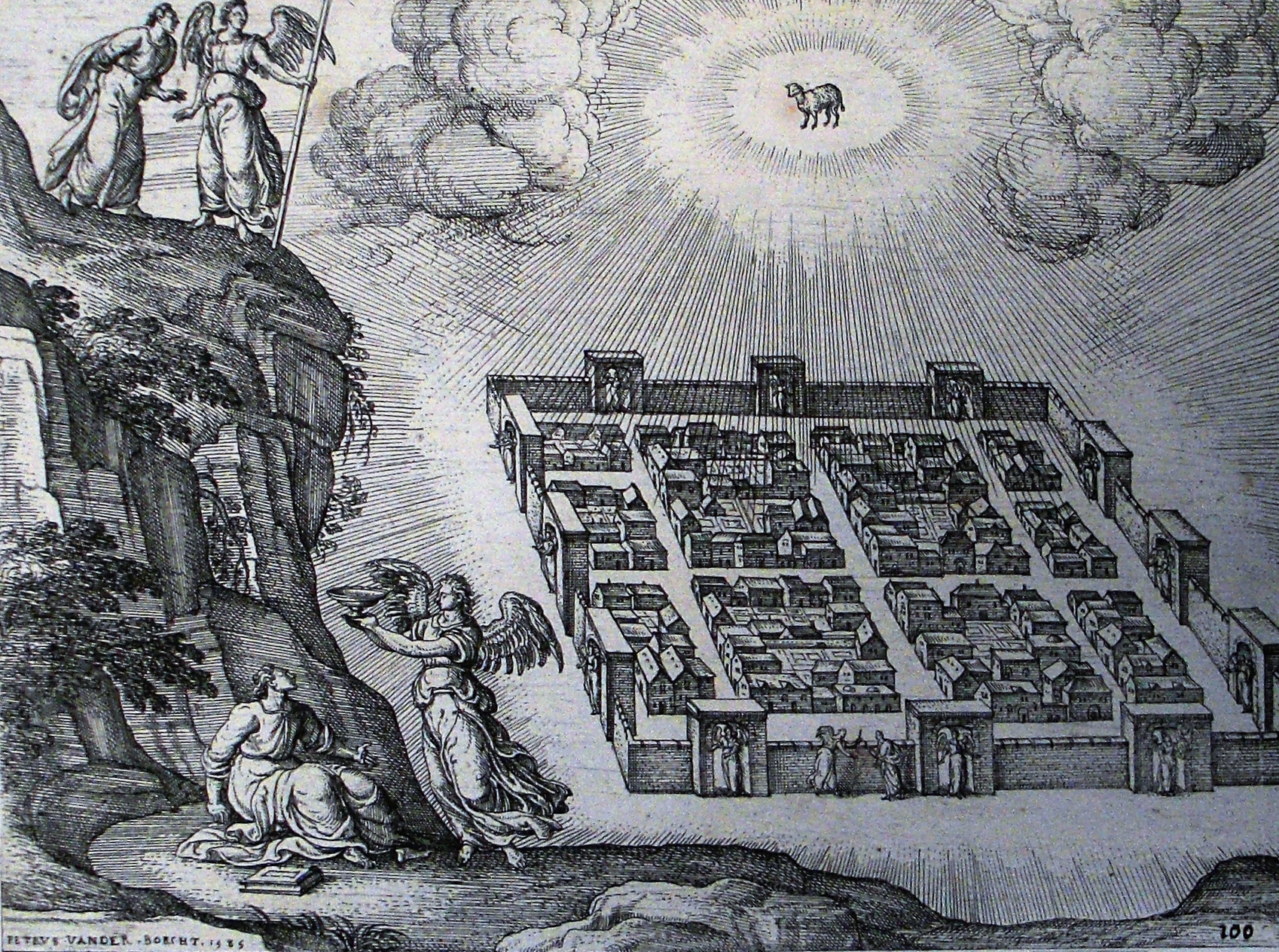 Apocalypse 42. A new heaven and new earth. Revelation 21 v 29. Borcht. Phillip Medhurst Collection